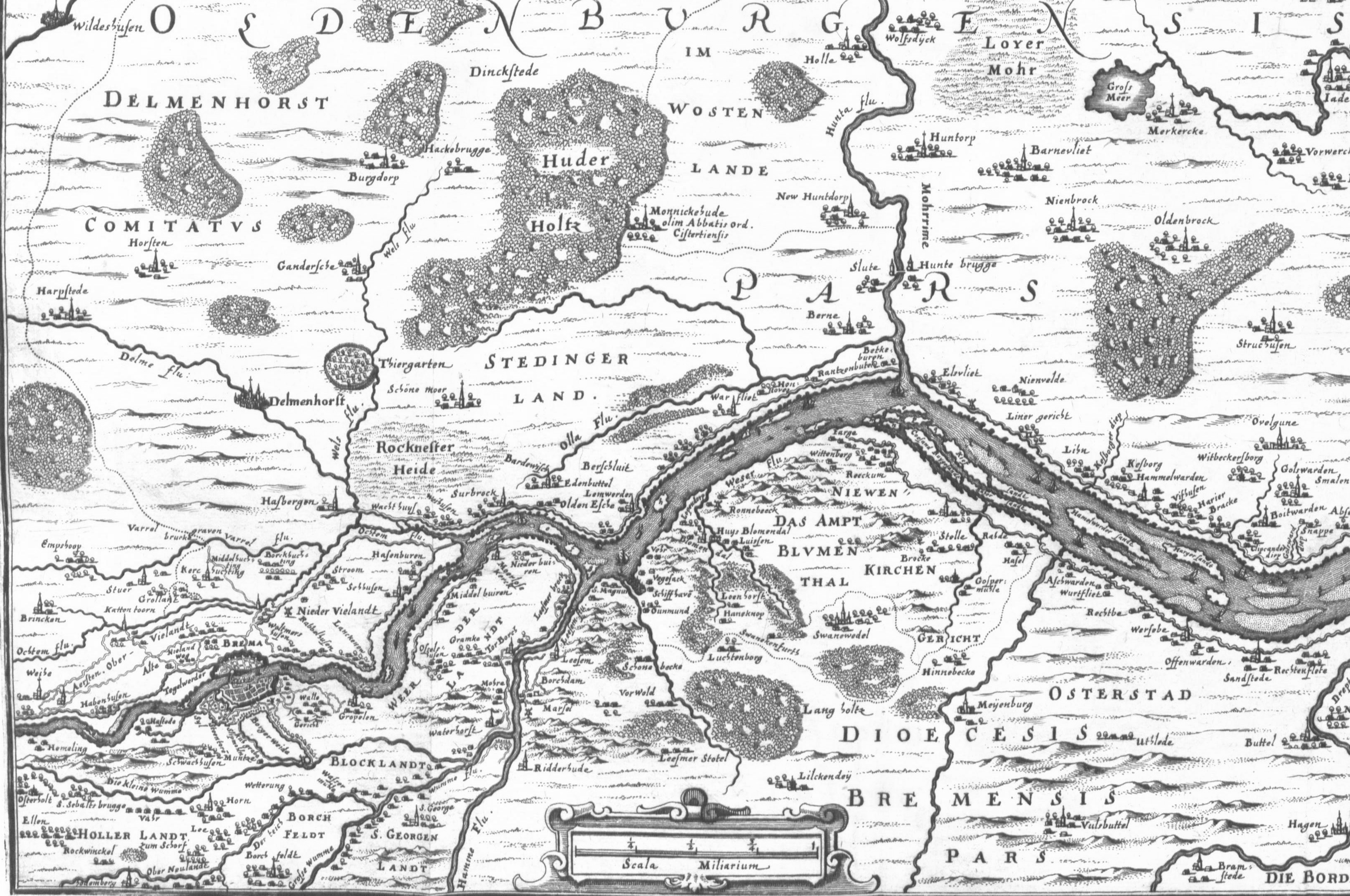 cut of a map from 2nd quarter of 17th century, titled "Saxony's noble river Weser with adjacent territories from incl. Bremen to the mouth"